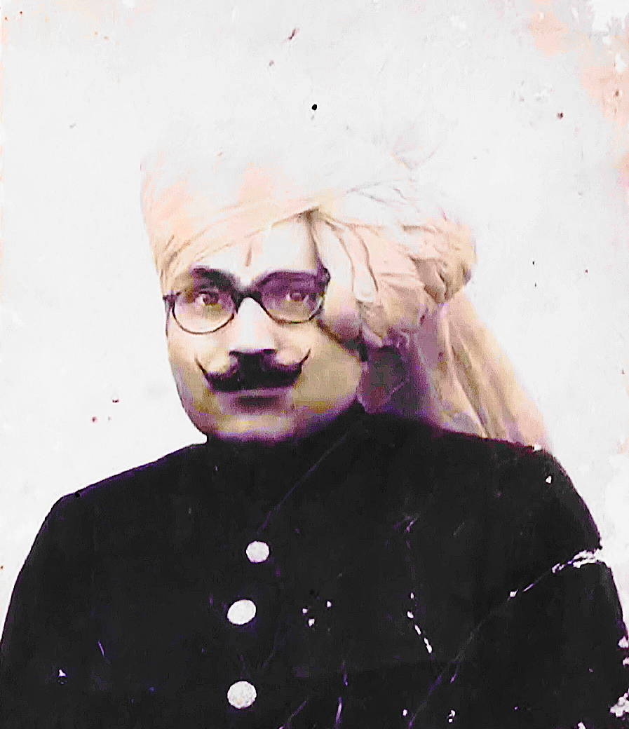 The Rao Rajkumar Singh (Rular of Baruali estate) a Badgujar dynasty.